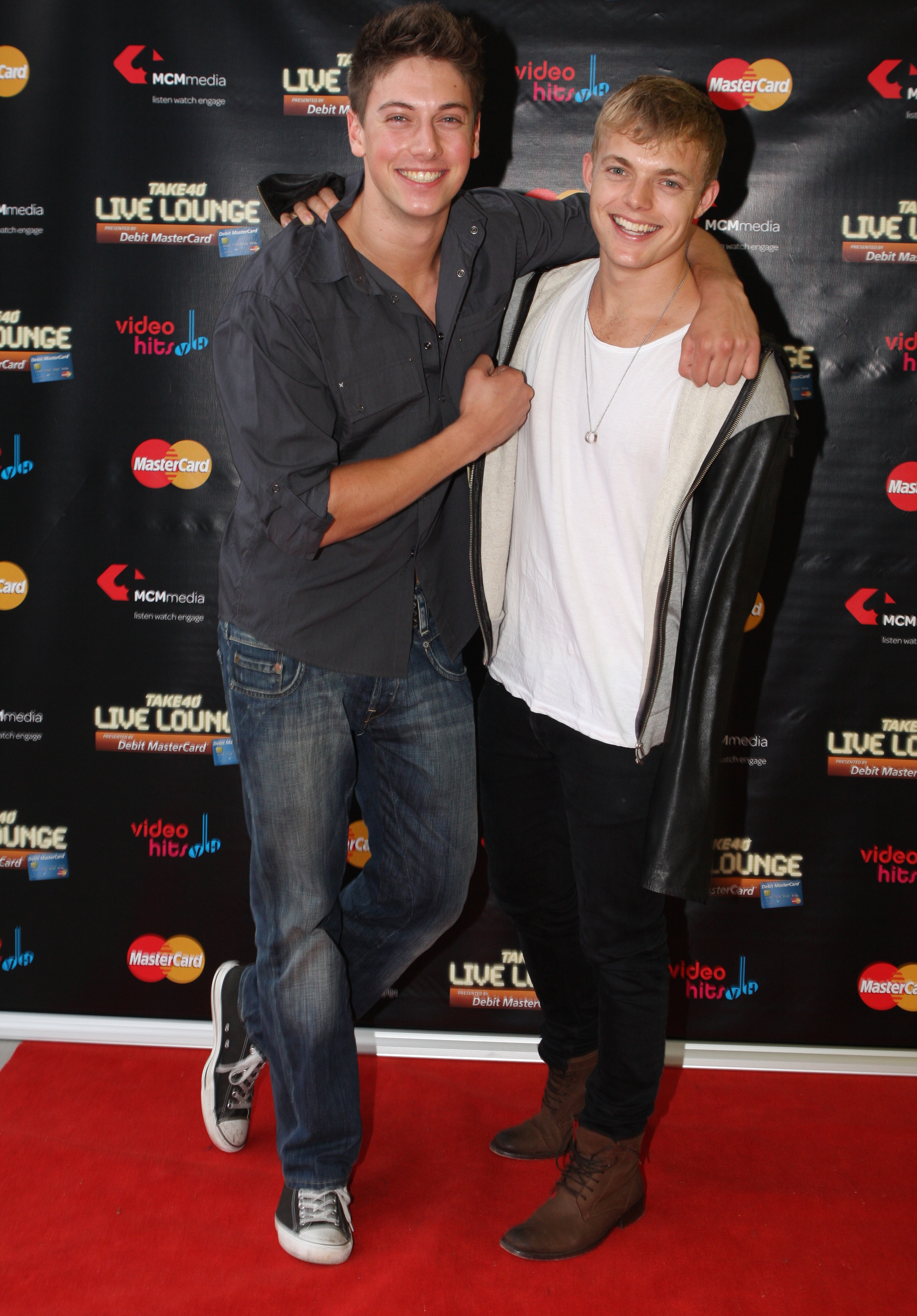 Lincoln Younes and David Jones Roberts at a LMFAO concert held at The Entertainment Quarter, Moore Park, Sydney